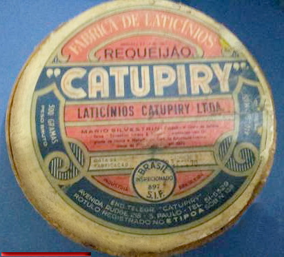 Catupiry wood box, decade 70.